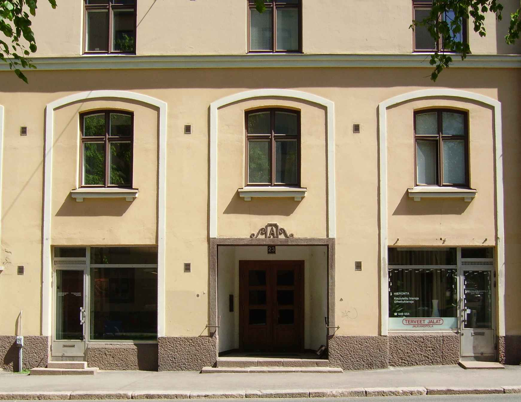 Minna Craucher was murdered on the staircase of Mechelininkatu 23 A, Helsinki, Finland.